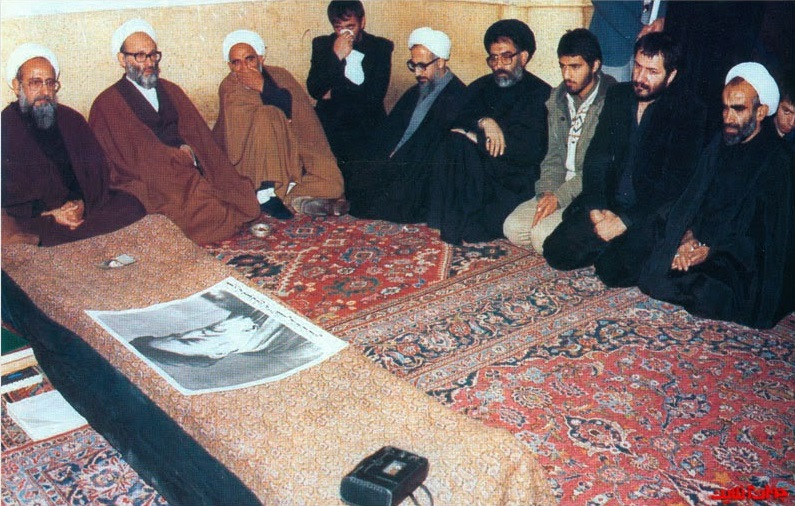 صورة للشيخ الطهراني (أقصى اليسار) مع عدد من مراجع الشيعة المعاصرين في عزاء العلامة السيد محمد حسين الطباطبائي.